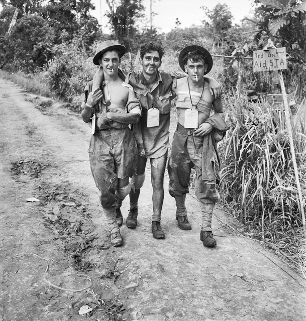 Wounded soldiers from the Australian 55th/53rd Battalion following an attack on a Japanese position astride the Sanananda Track, 7 December 1942.